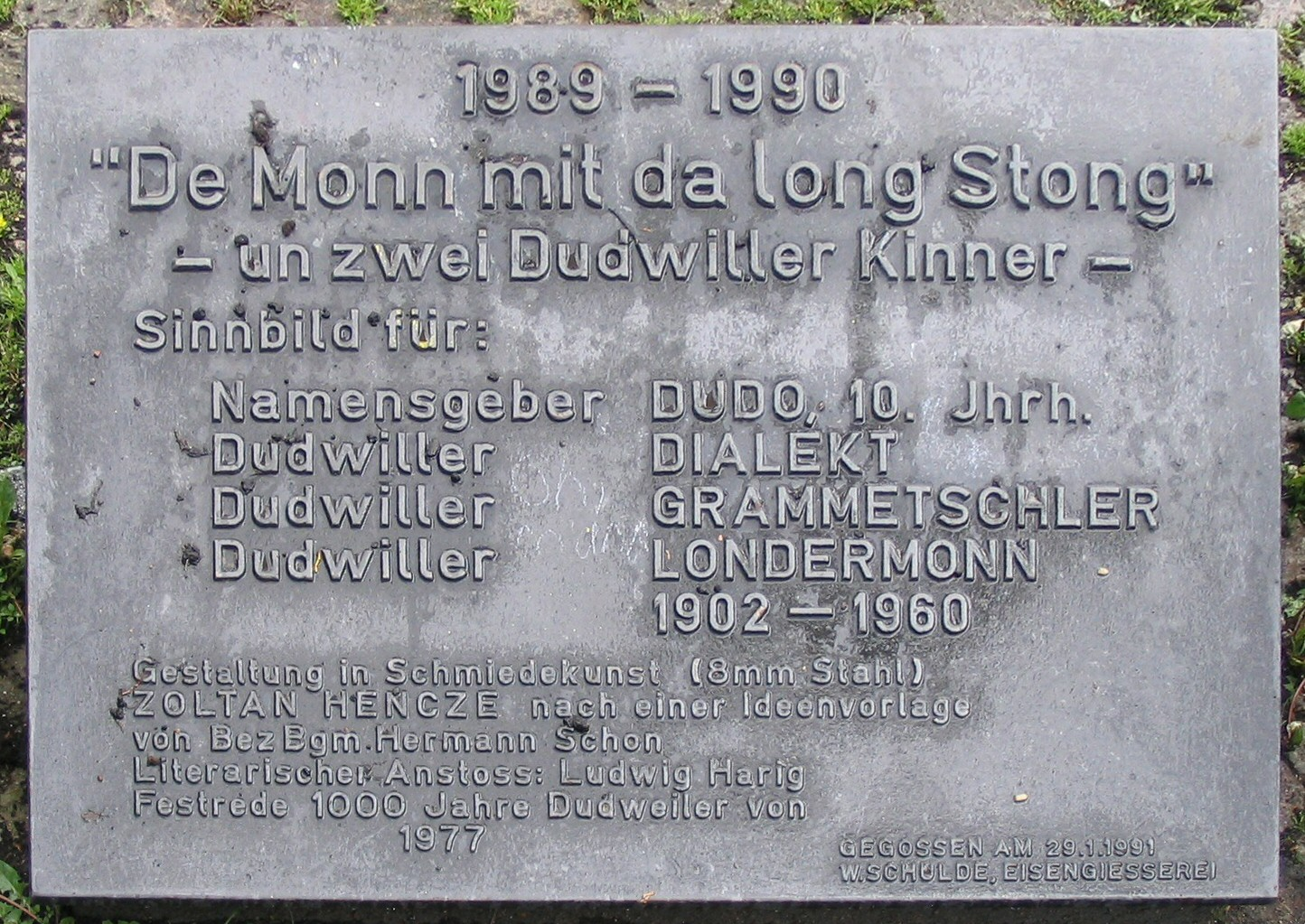 Description: Informations about the monument De Monn mit da long Stong by Zoltan Hencze in Dudweiler (Saarbrücken/Germany). Photographer: kh80 Date: 2005-05-08 License: GFDL and cc-by-sa/2.0/de